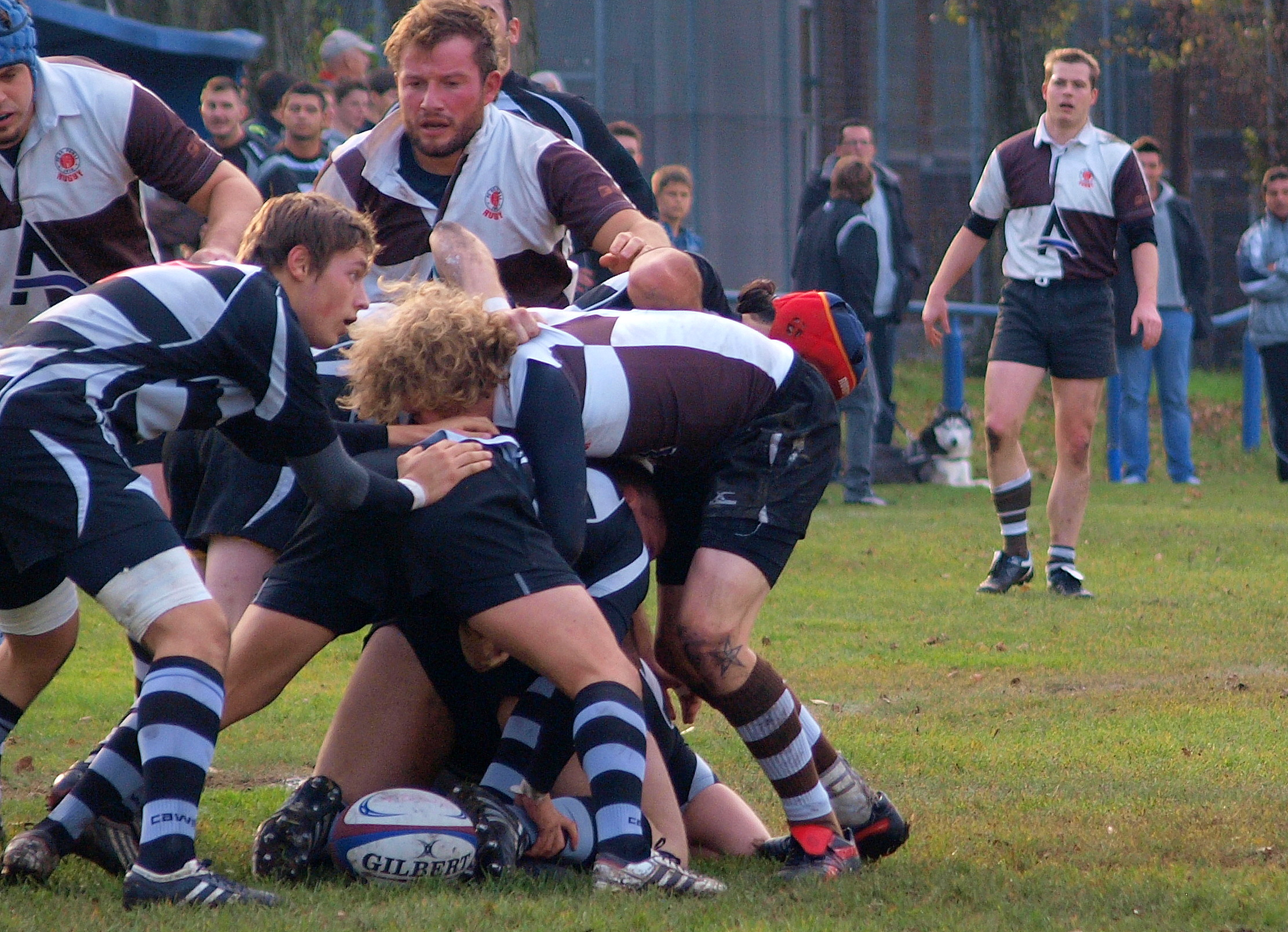 Rugby match FC St. Pauli vs. Victoria Linden